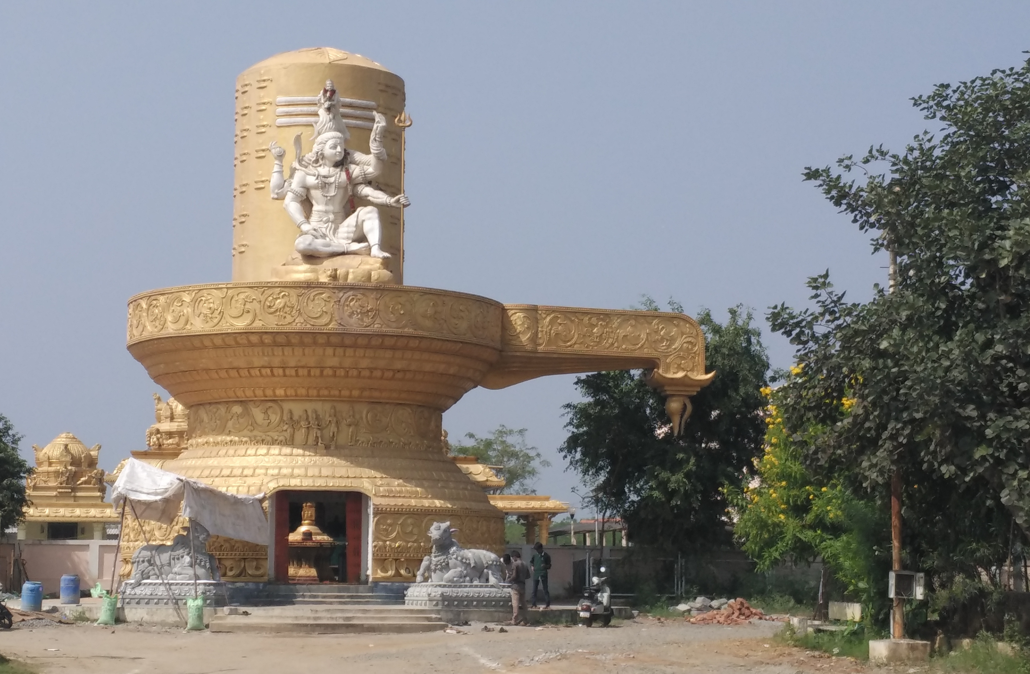 Shivaalayam in Kanchikicherla Village of Krishna District, A.P_Entrance of the Main temple is in the form of Shiva Linga